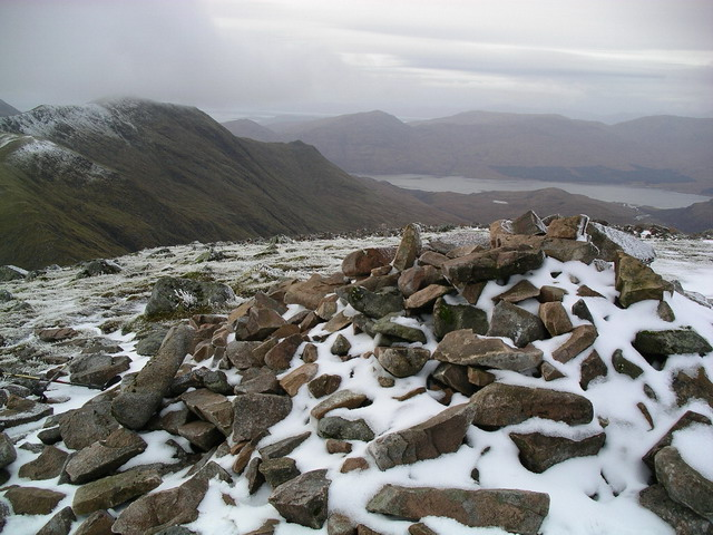 Beinn Eunaich : Munro No 156. The summit cairn at 989m. The view is to the west north west and Loch Etive.